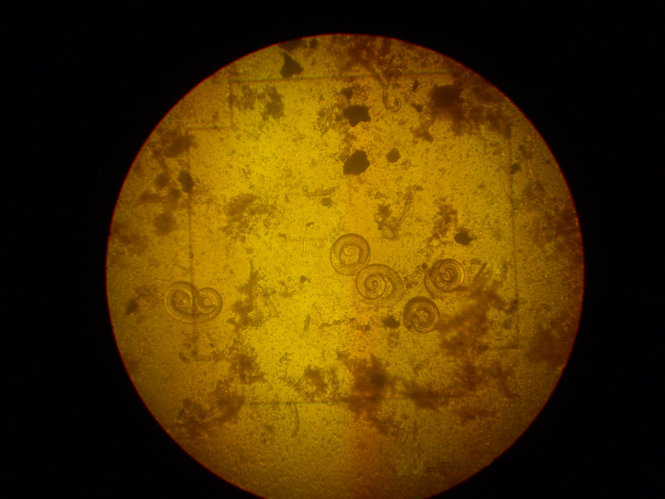 Trichinella spiralis